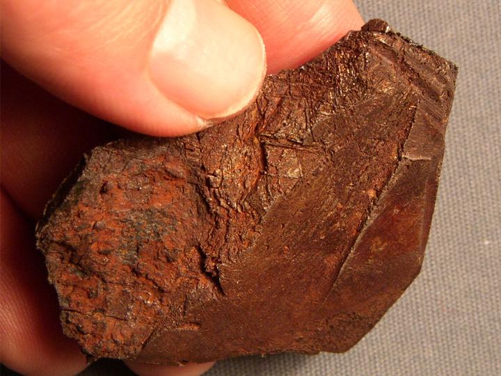 The Kaposfüred iron meteorite, Hungary